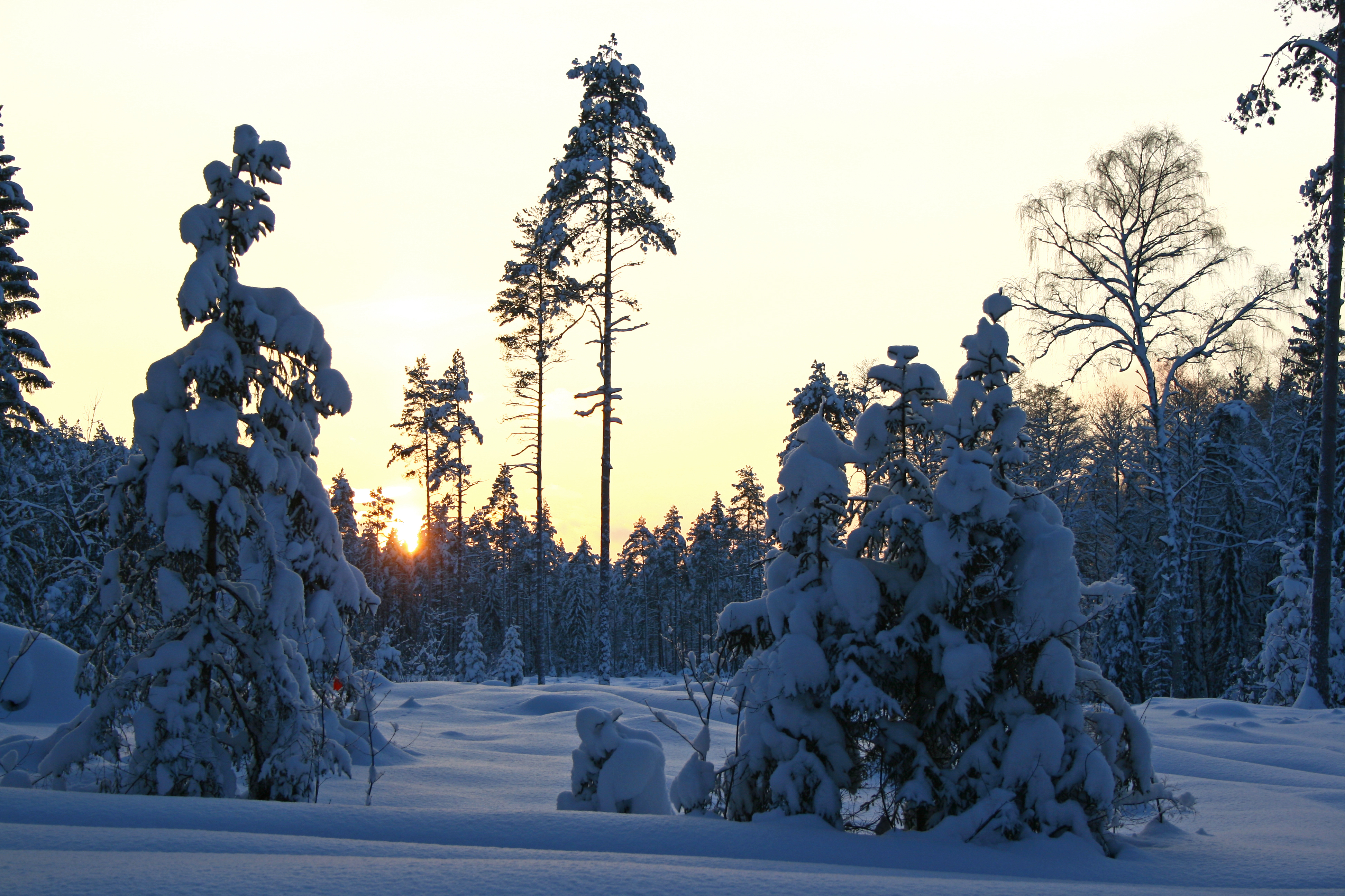 Nõmmeri külas Harjumaal, Kõue vallas